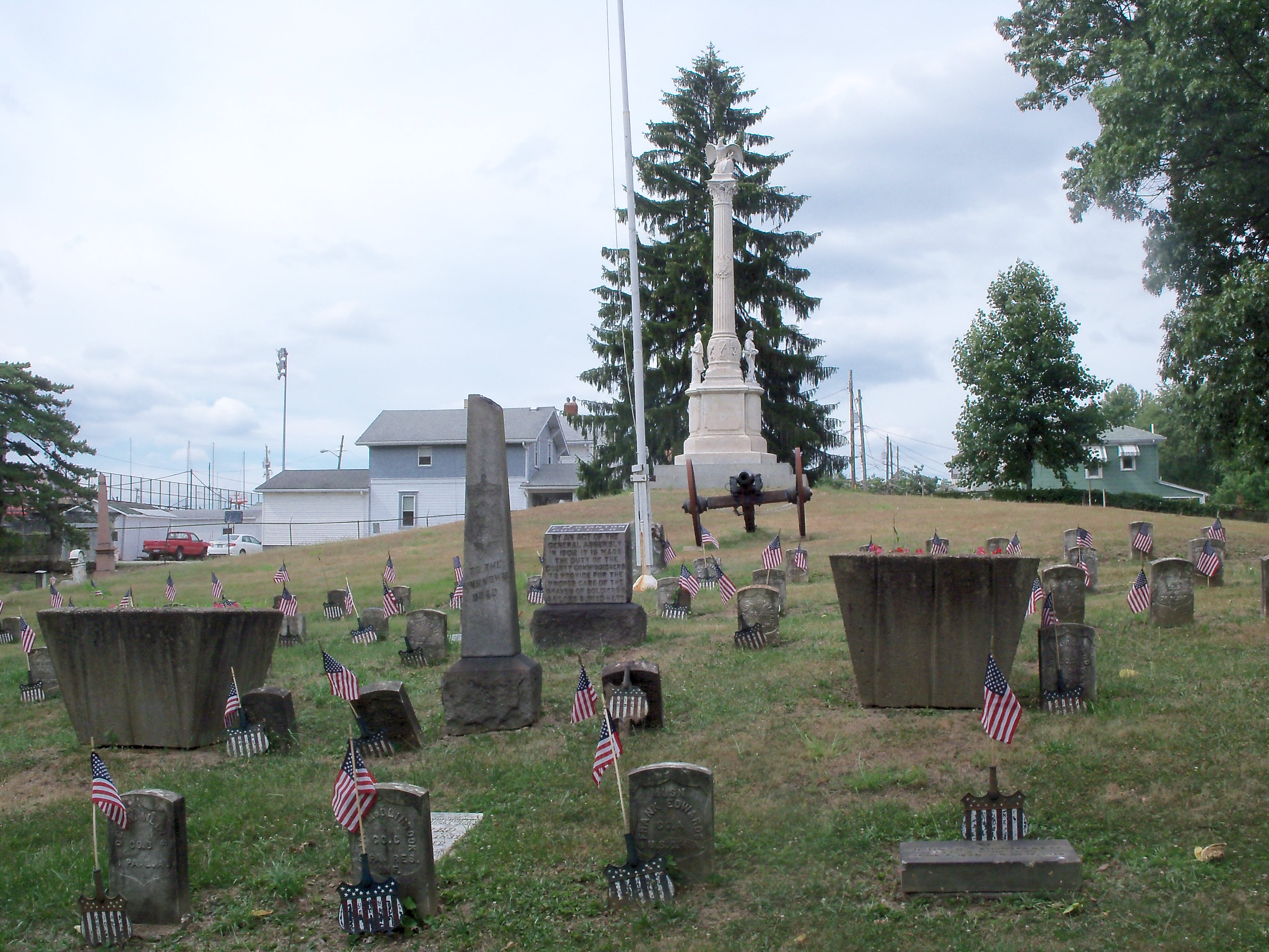 Civil War Memorial-Union Cemetery, Steubenville 2012-07-13.JPG Union Cemetery-Beatty Park, is a site on the National Register of Historic Places in Steubenville, Ohio. This is the memorial to civil war veterans.Graves of veterans are in foreground.Stele in front reads “To the unknown dead”. Square stone behind reads “E. M. Stanton Post G.A.R.” on top and “By an act of the General Assembly in 190(?), it is made the responsibility of the county commissioners to provide for the proper care of the graves of the soldiers and sailors buried here. Next is flagpole and cannon. On top of hill is monument. Front of monument reads “To the deceased soldiers and sailors of Jefferson County, Ohio who served in the Union Army and Union Navy during the Great War for the Suppression of the Rebellion from 1861 to 1865. Erected by the loyal citizens of Jefferson County A.D. 1869”.Rear of monument reads”Bull Run CorinthPerryville AntietamStone River GettysburgChickamauga WildernessAtlanta Cedar CreekNew Orleans Mobile.